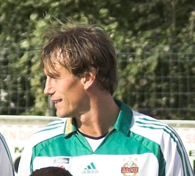 Axel Lawaree, a football player